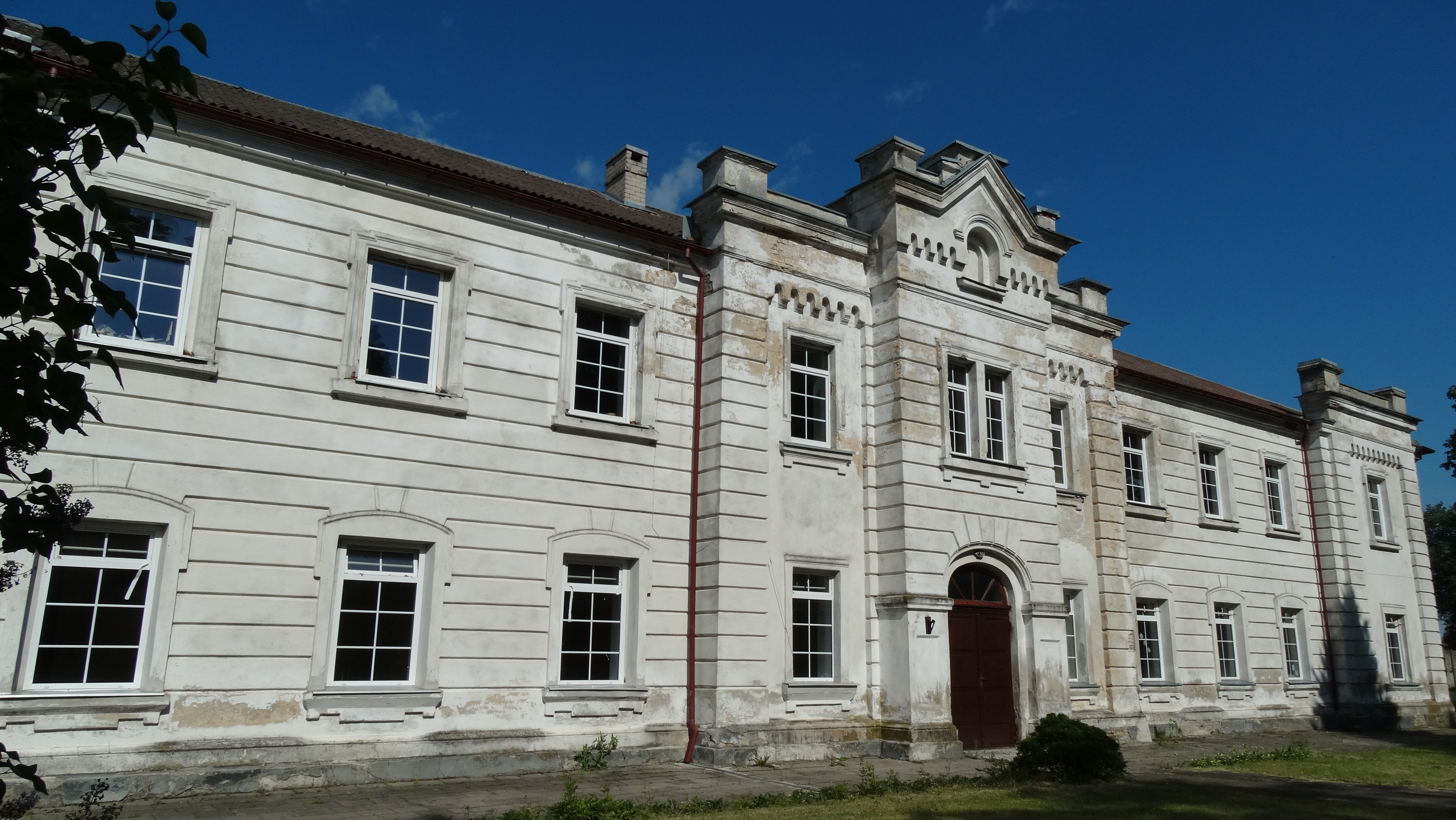 Former manor, Vėliučionys, Vilnius District, Lithuania